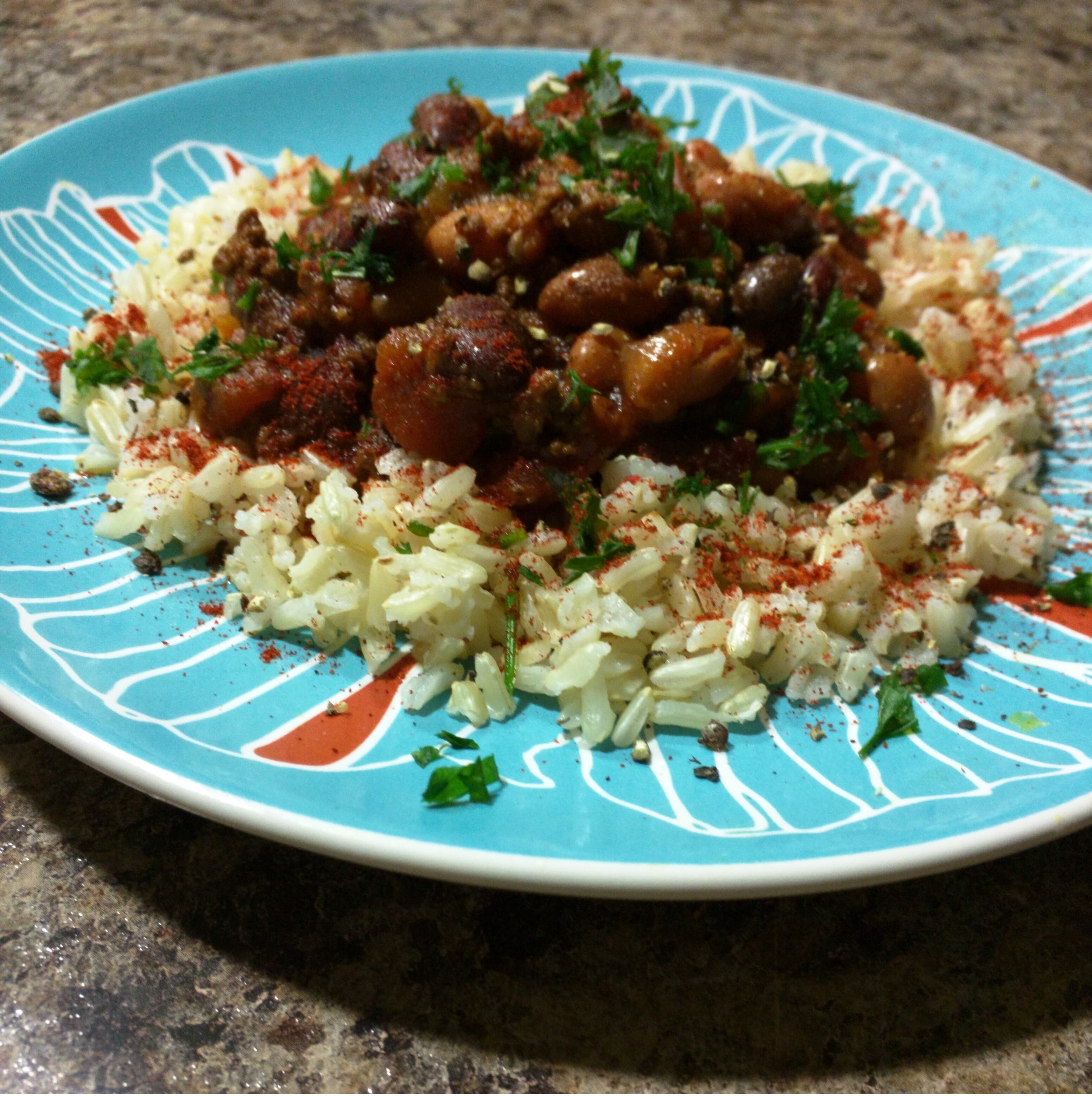 Orez Shu'it (Hebrew: אורז שעועית) is an Israeli dish made with beans cooked in a tomato paste and served over white rice